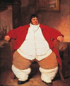 Portrait of Daniel Lambert (1770-1809)